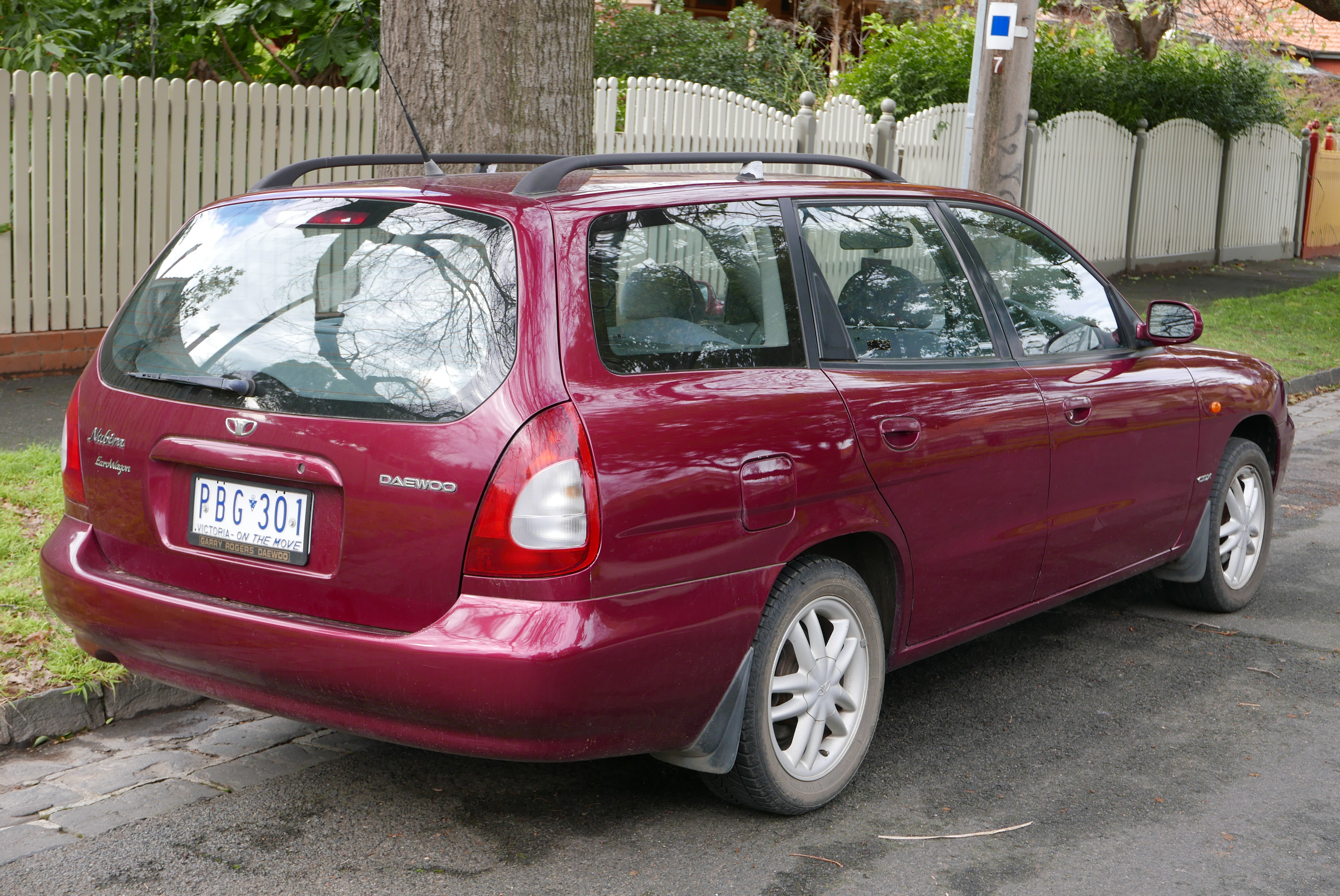 1998 Daewoo Nubira (J100) CDX EuroWagon station wagon. Photographed in Hawthorn, Victoria, Australia. Vehicle registration enquiry results Jurisdiction Victoria Registration PBG301 Chassis code KLAJA35ZEWK213694 Engine code X20SED052805 Compliance date 1998-05 Year of manufacture 1998